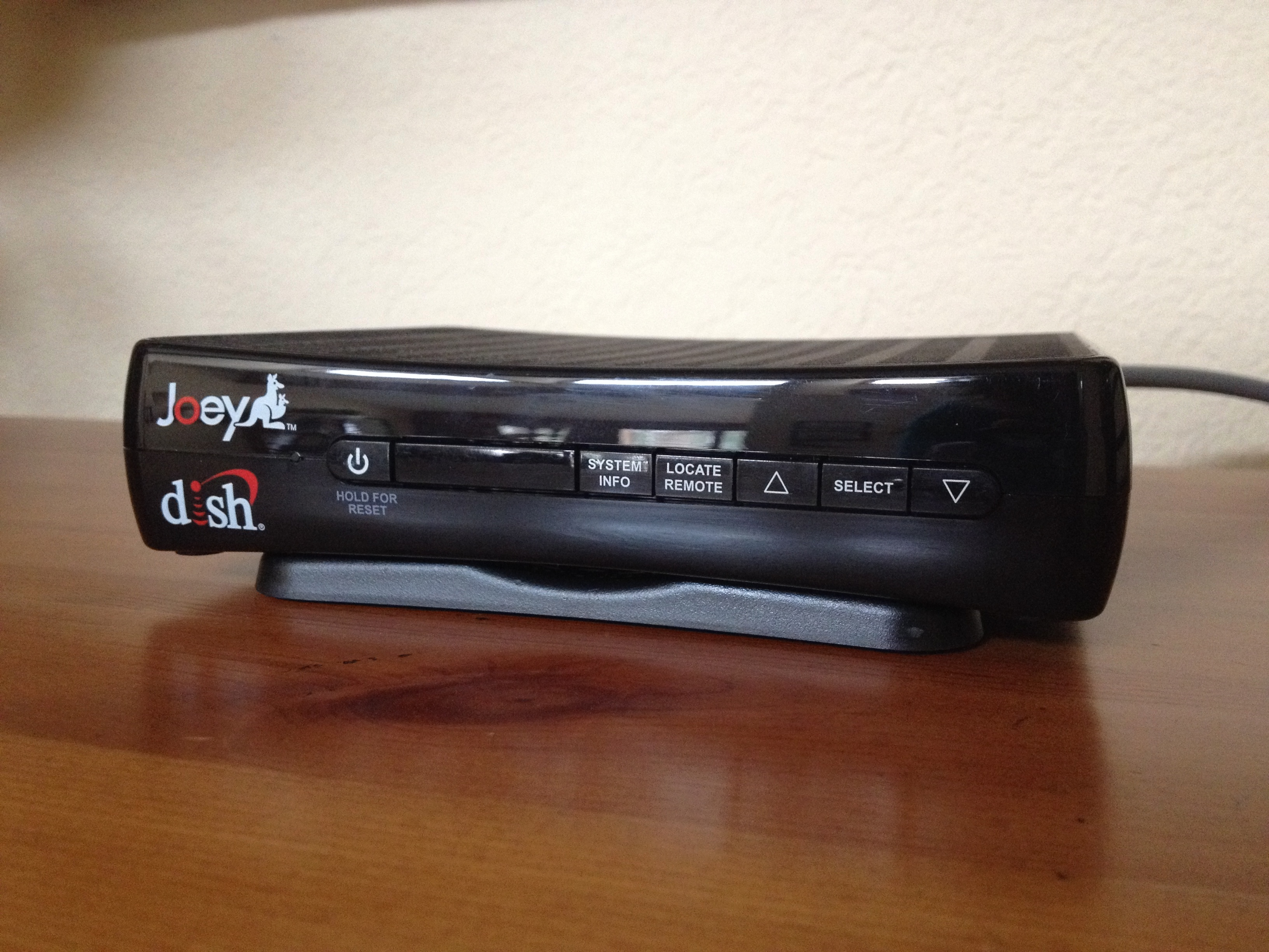 Picture of the DISH Joey